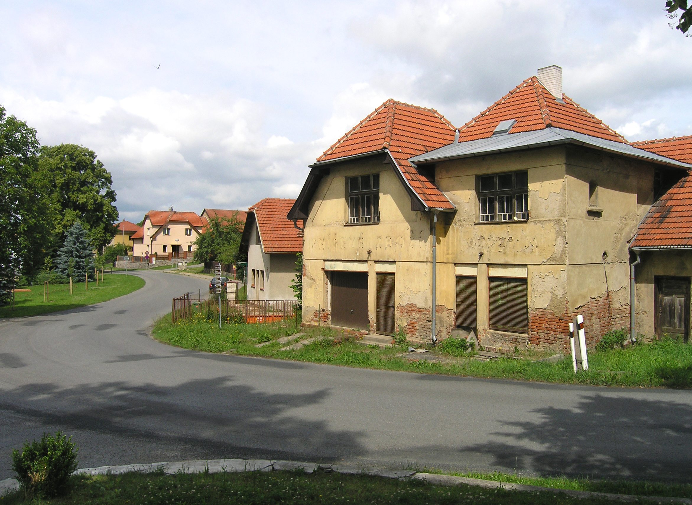 Common in Struhařov, Czech Republic